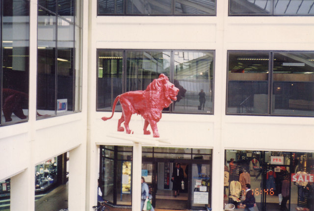 The long-lost Red Lion This used to stand in the centre of the Lion Yard shopping centre, well seen here from the Central Library. It provided a link with the former Red Lion pub from which the centre took its name. Somewhere down the years it was removed and was thought lost, but it has recently been rediscovered in storage and may yet return.